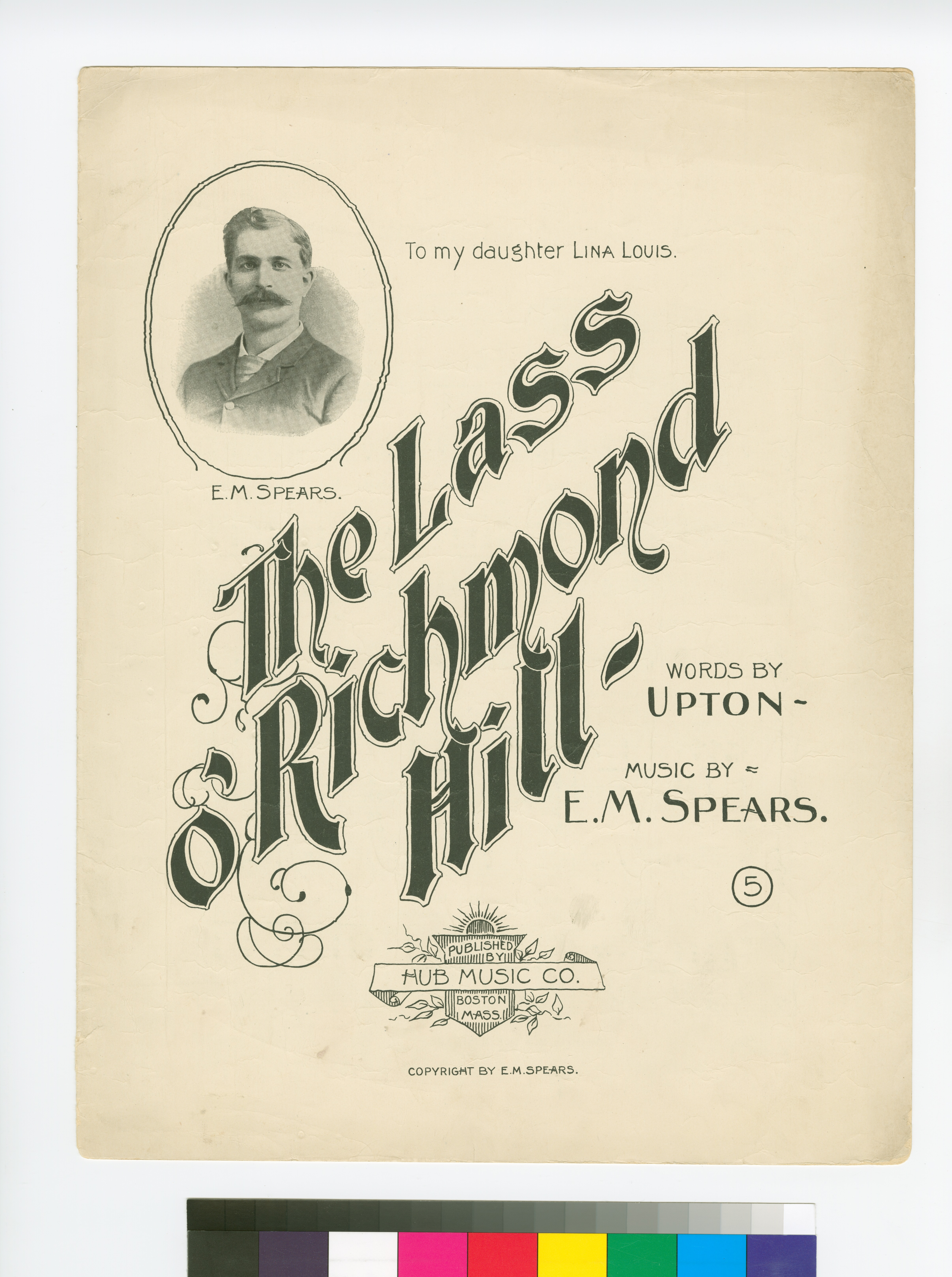 On cover: E.M. Spears. Dedication: To my daughter Lina Louise. Statement of responsibility : words by Upton ; music by E.M. Spears.